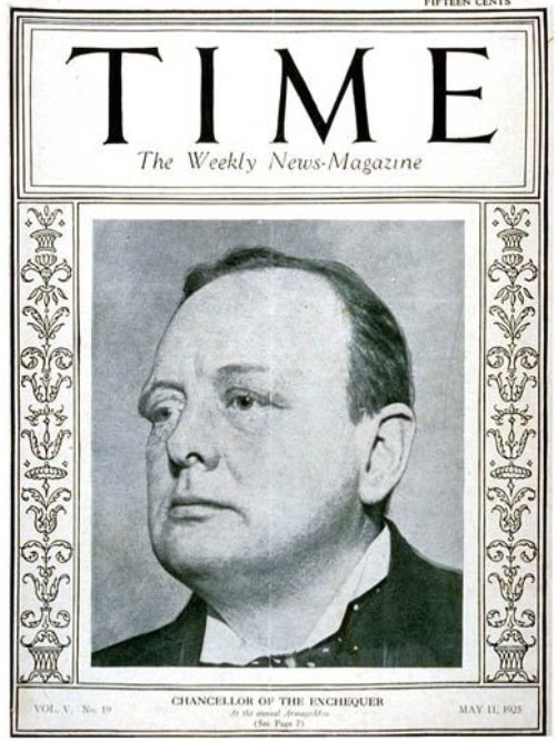 Churchill on Times cover 1925